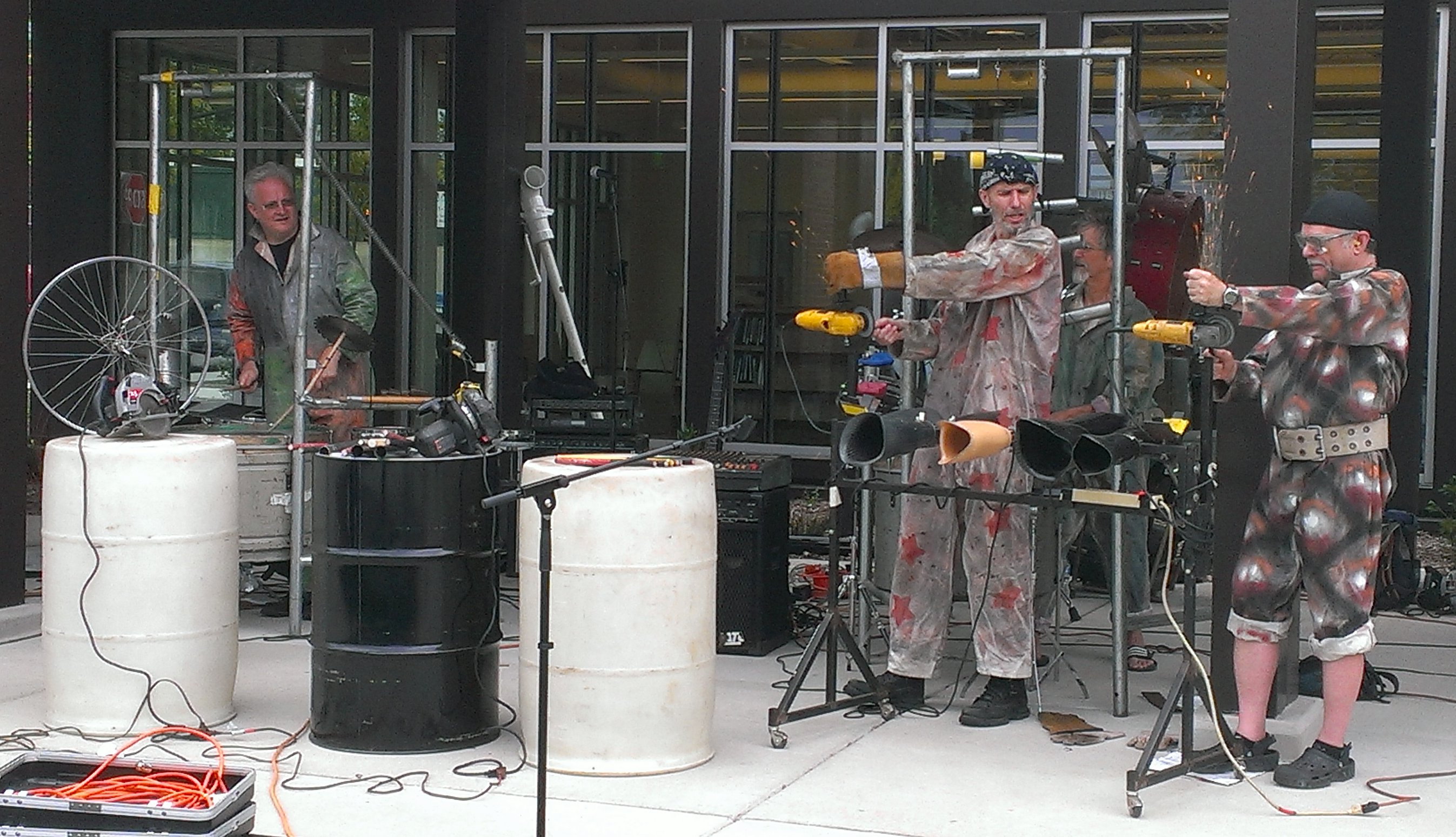 Savage Aural Hotbed performing at Saint Paul Public Library's Maker Festival, Arlington Hills Community Center, 1200 Payne Ave, St Paul, Minnesota, USA.